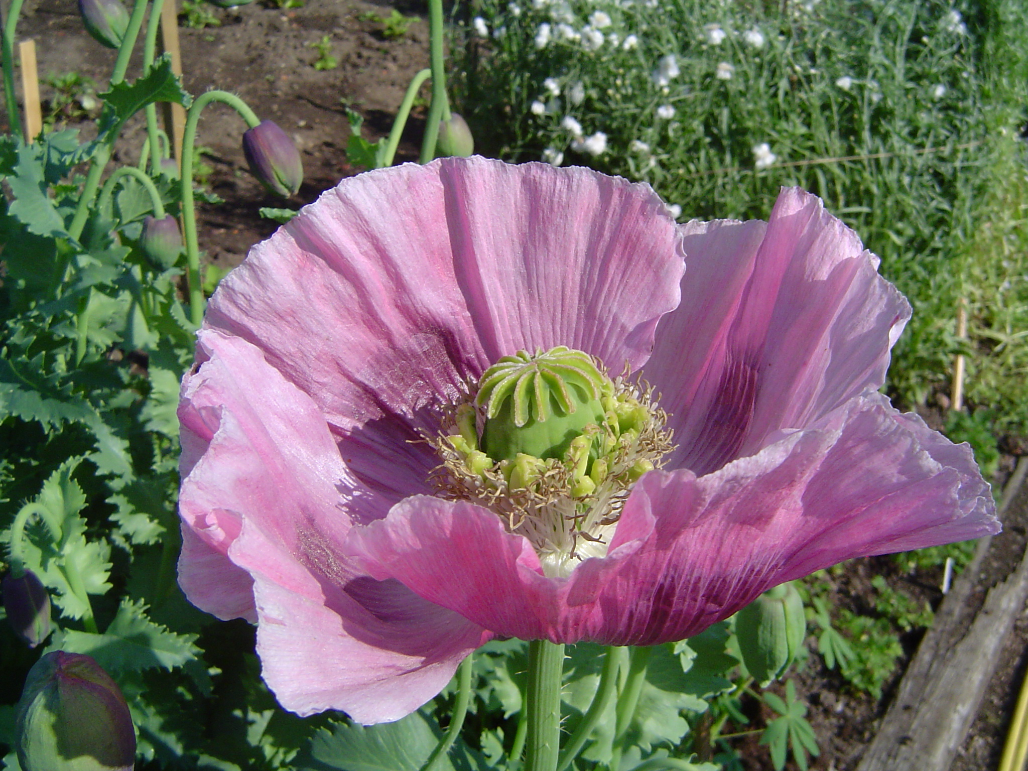 Opium Poppy (Papaver somniferum) found at Chatsworth House, a large country house eight miles (13 km) north of Matlock in Derbyshire, England.